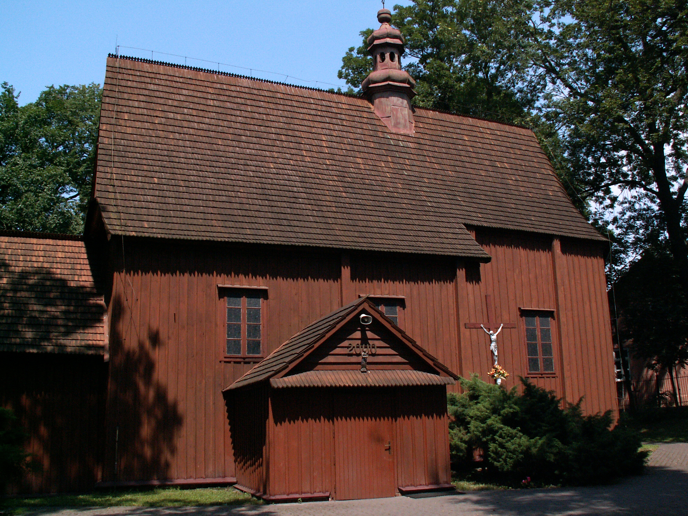 Church of All Saints in Gorka Kościelnicka,Krakow,Poland